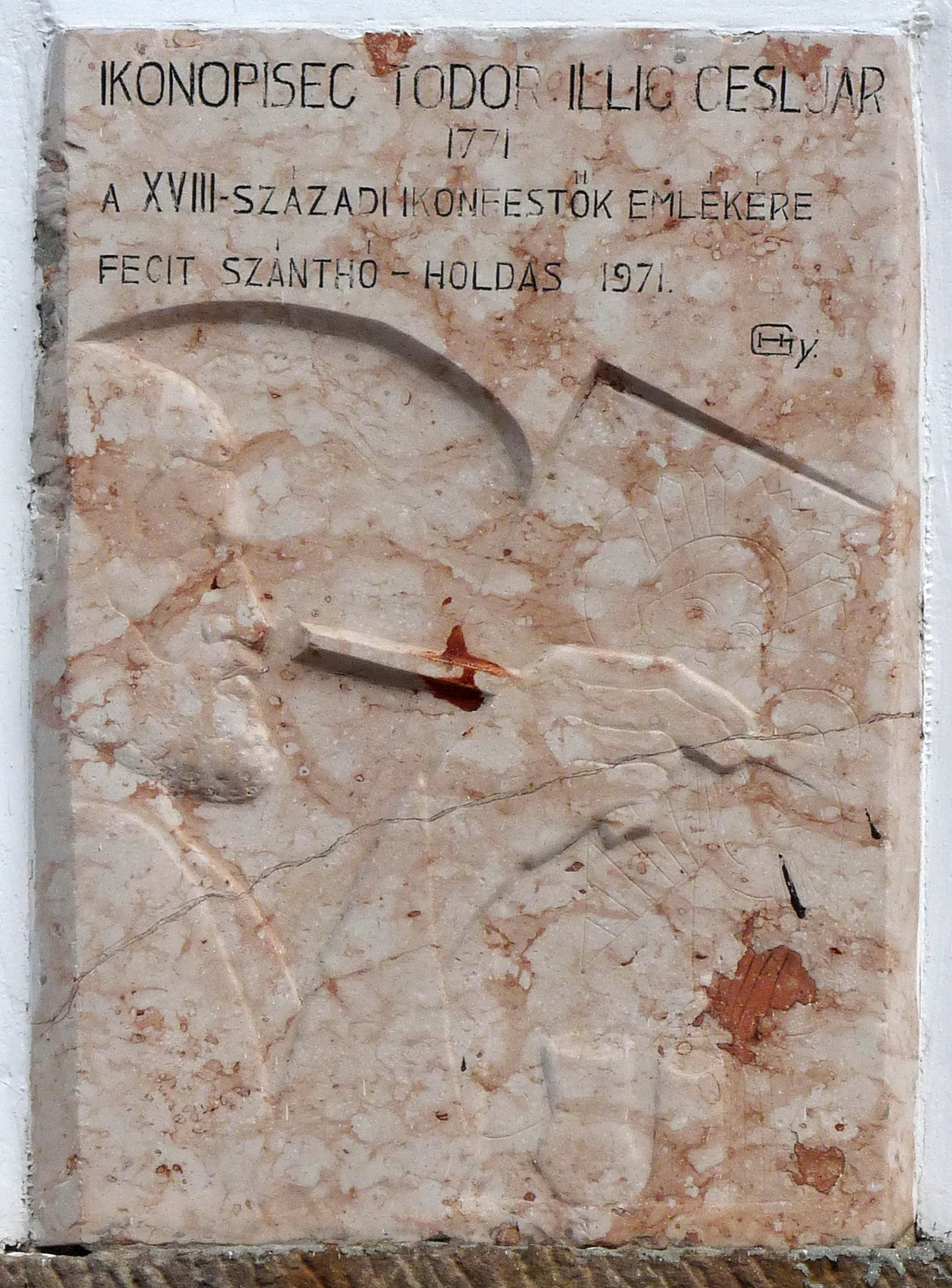 Commemorative plaque to Mr. Teodor Ilić Češljar (1746–1793) Serbian painter of icons, affixed to the wall of the "Dalmatian House". The marble relief was realized by Imre Szánthó and the sculptor György Holdas in 1971. (Szentendre, Malom Street Nr 5)